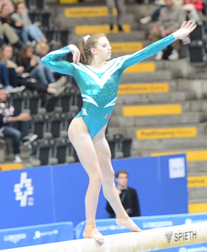 5.0 + 6.866 = 11.866 [Screenshot from video at around 1:05]